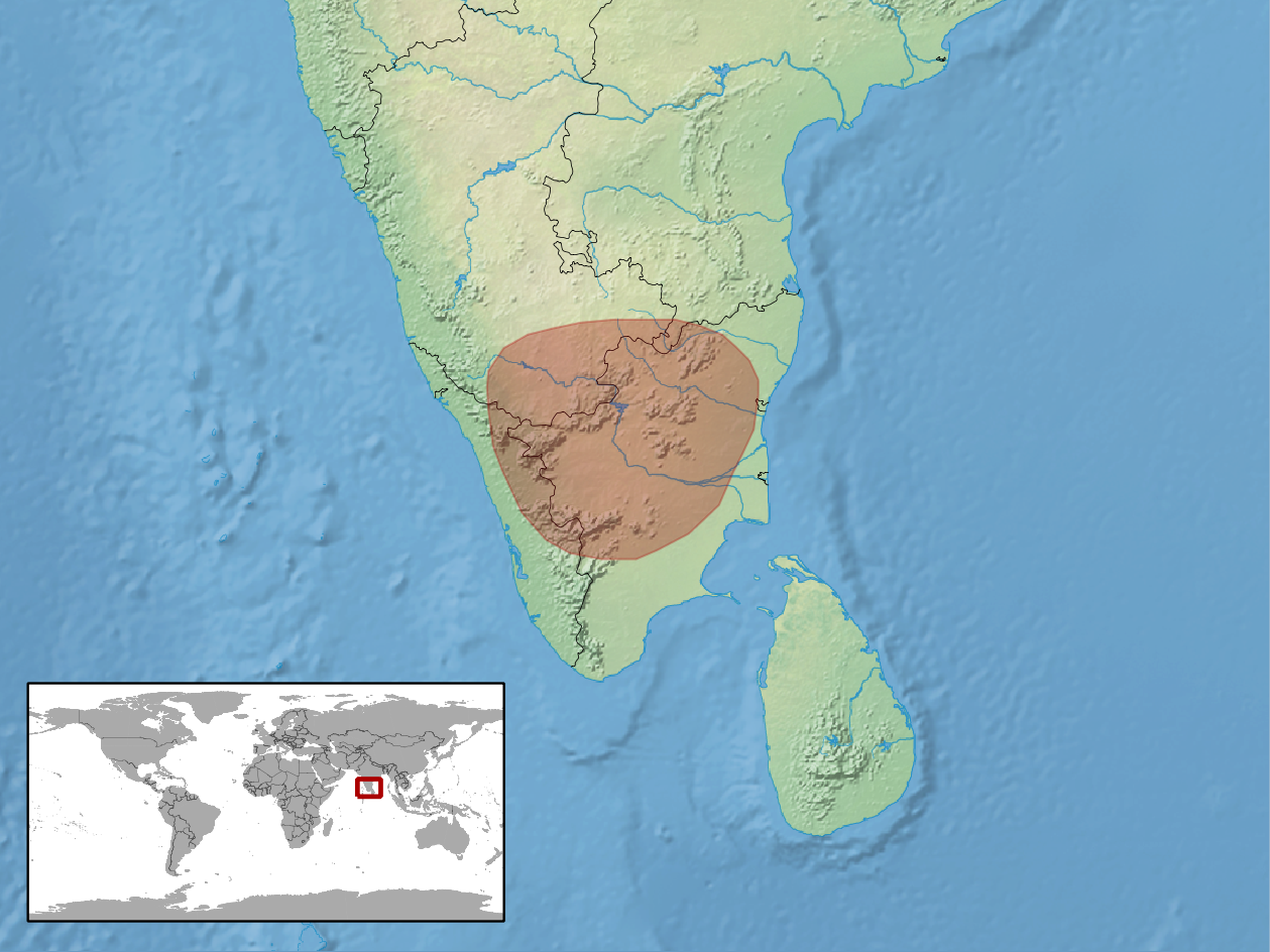 geographic distribution of Trimeresurus gramineus (Native: India)